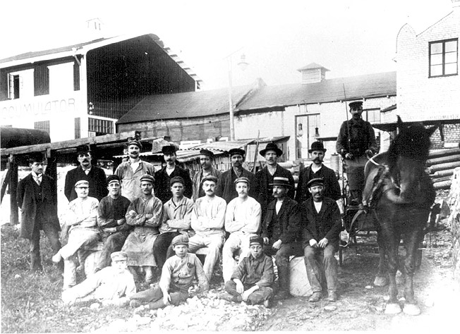 Emloyees at company Gasaccumultor AB (later AGA AB), Järla Nacka (Stockholm) 1905.